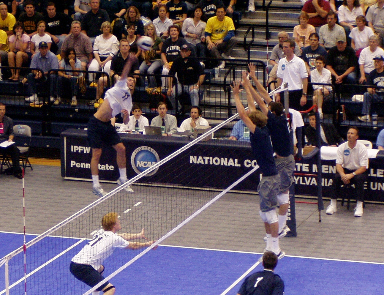 Kill shot against two blockers in the 2006 NCAA semifinal between Penn State and University of California, Irvine at Rec Hall.